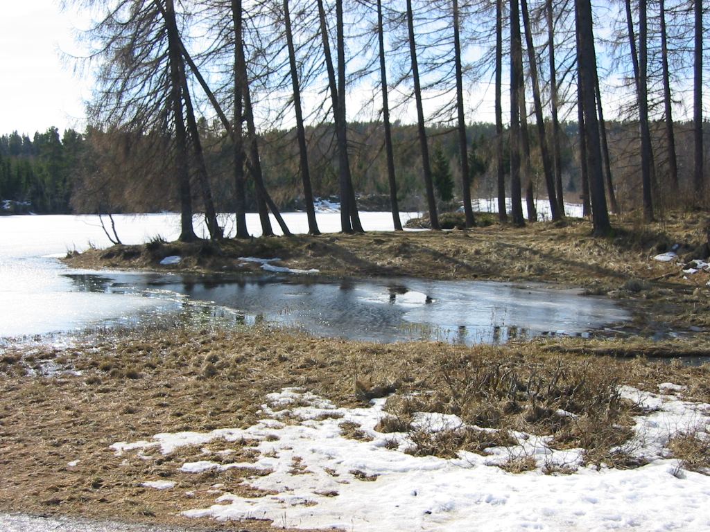 Theisendammen lake in Bymarka, Trondheim. April 3 2003. Orcaborealis.